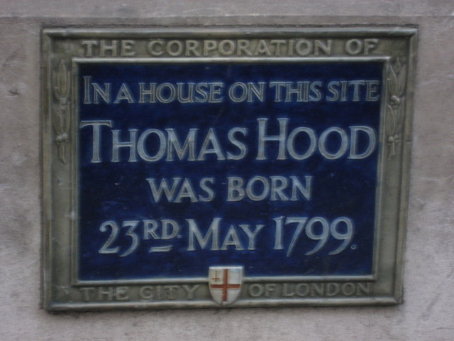 Plaque re Thomas Hood, Poultry, EC2. Born, coincidentally, in the same year that 1096131 was erected